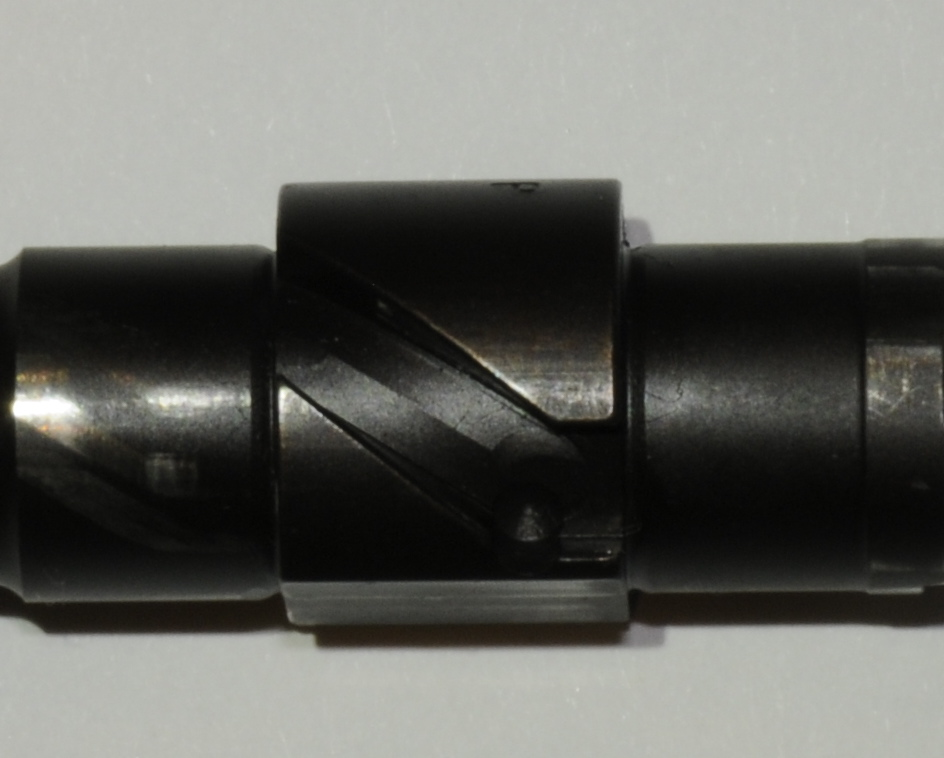 This is a picture of the rotating barrel lock on the Beretta PX4 Storm.